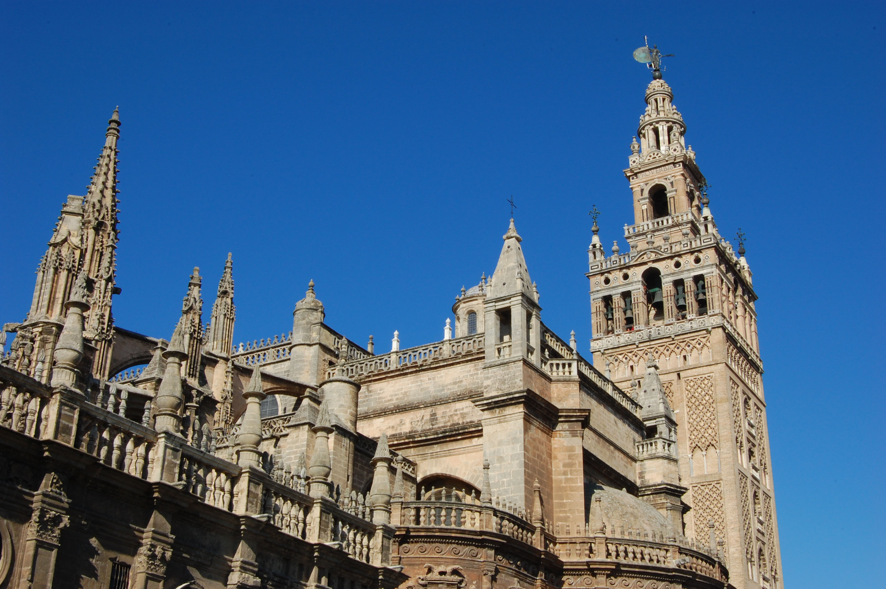 Vista de la Catedral de Sevilla y La Giralda.